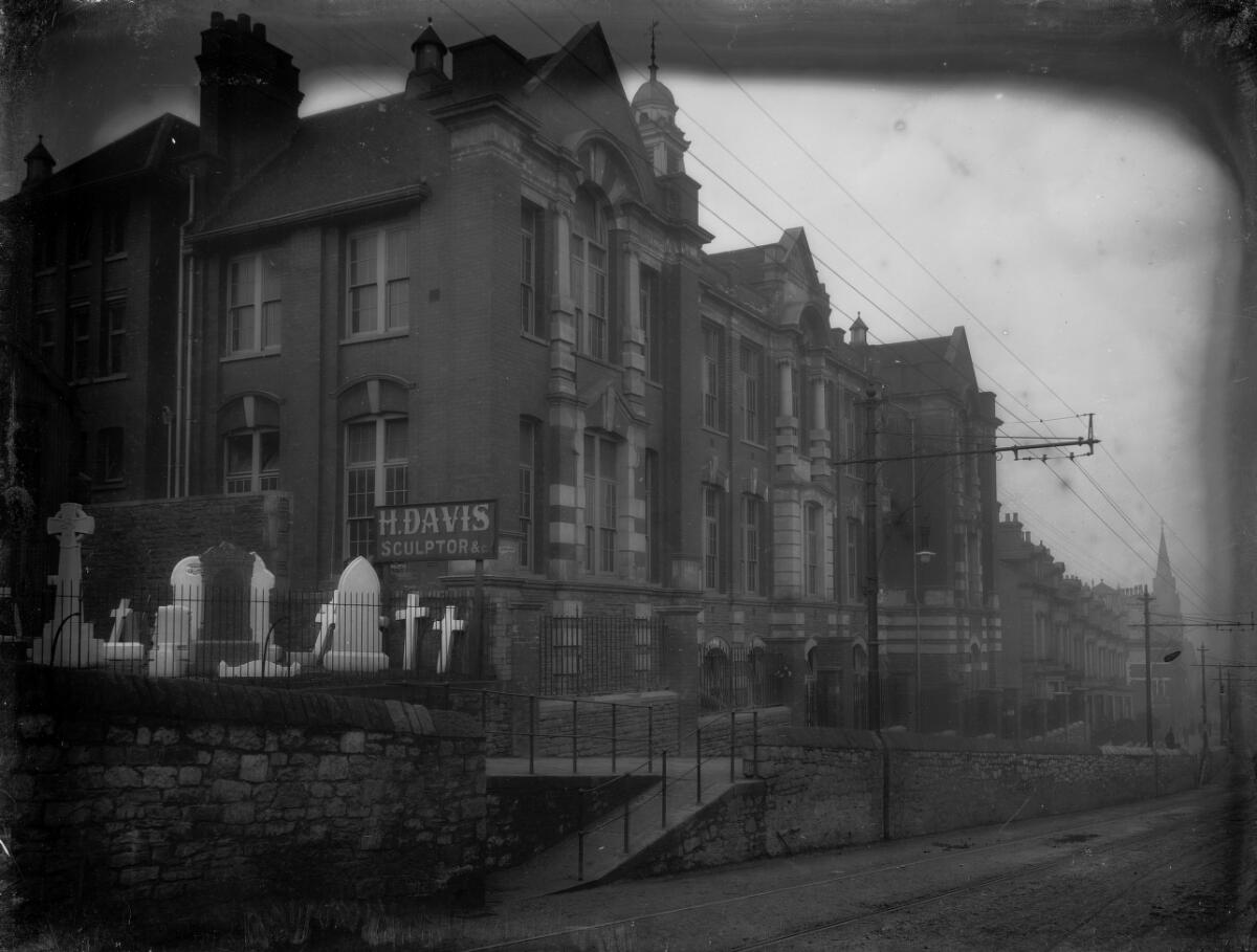 Photograph from the Martin Ridley Collection, which documents the towns and villages of South Wales c.1900-1910